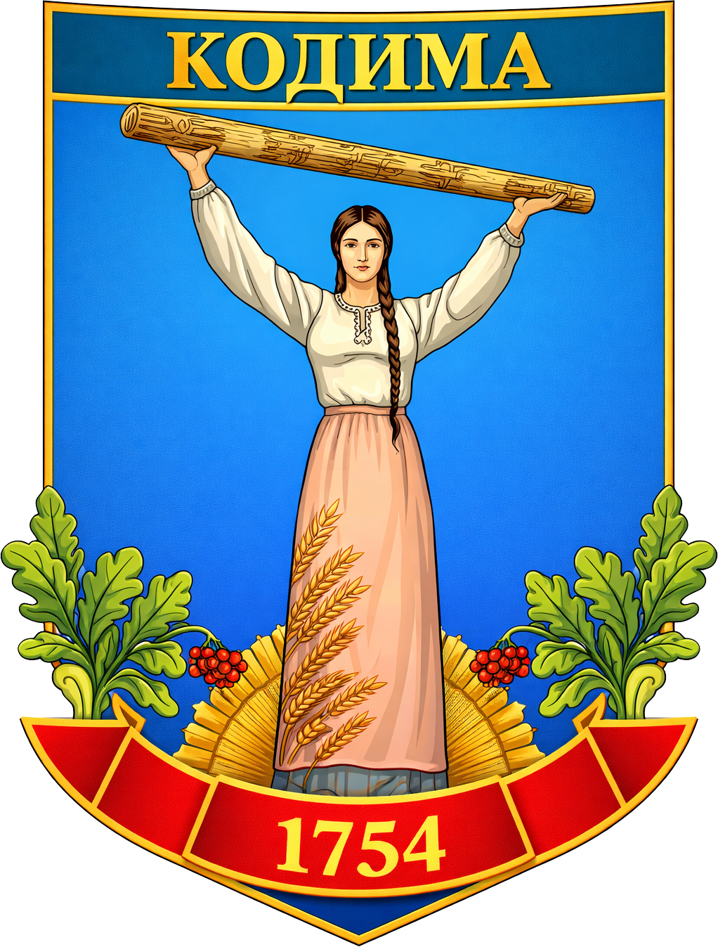 Coat of Arms Kodima, Odessa Oblast, Ukraine